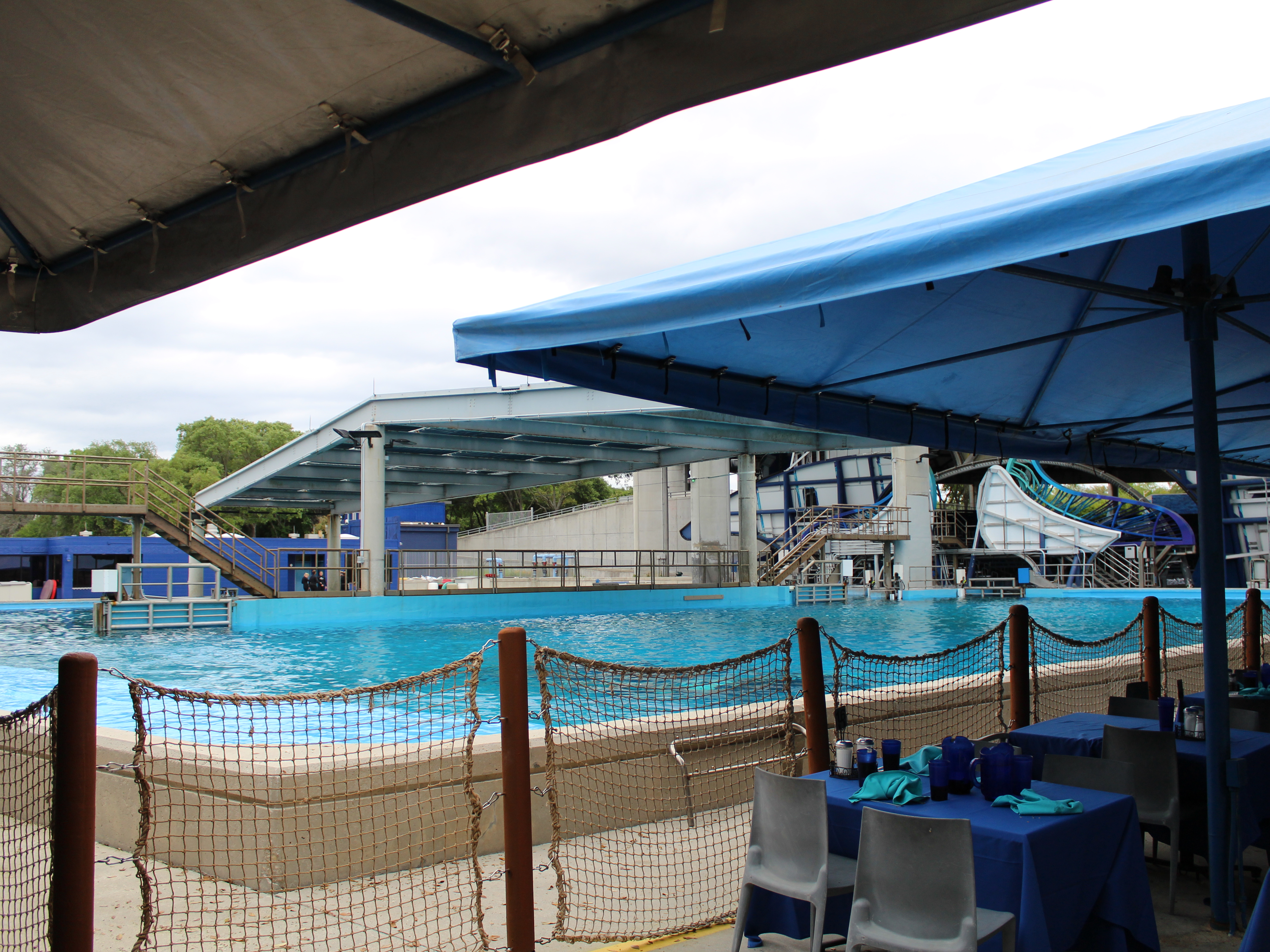 Backstage at Shamu Stadium after a Dine With Shamu, April 2016